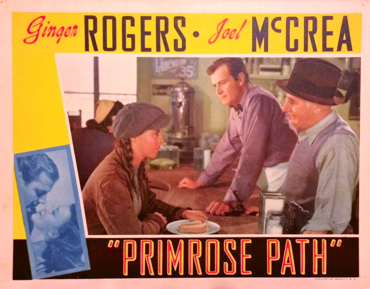 Lobby card for the American drama film Primrose Path (1940).